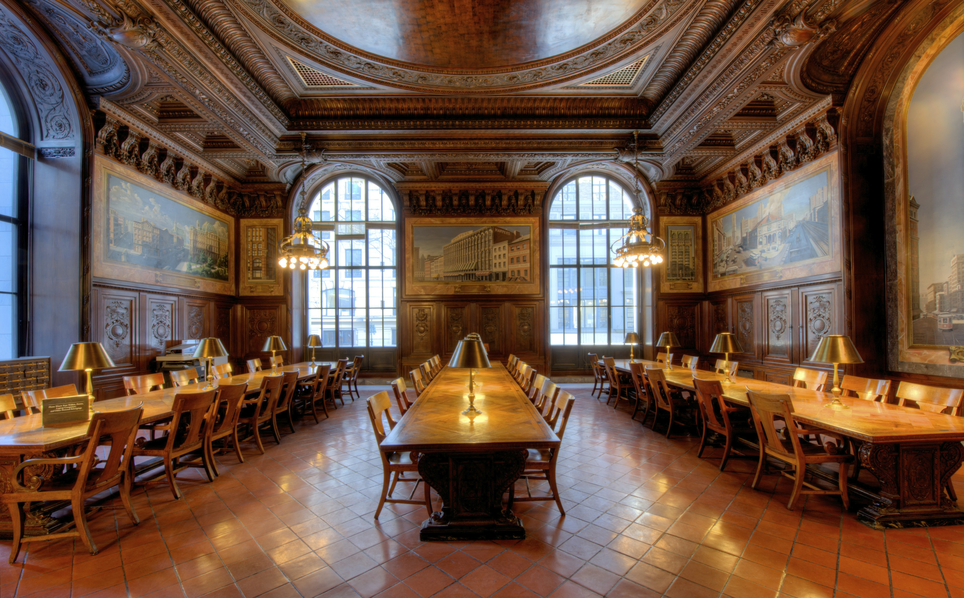 The importance of periodicals in the history and daily cultural and social life of New York is acknowledged in the wall murals that depict significant publishers of periodicals, newspapers and books, at the turn of the century. This generous gift to the Library also made the painting of thirteen murals possible. These paintings by the contemporary New York artist Richard Haas (b. 1936) depict buildings associated with Periodical publishing in New York City.